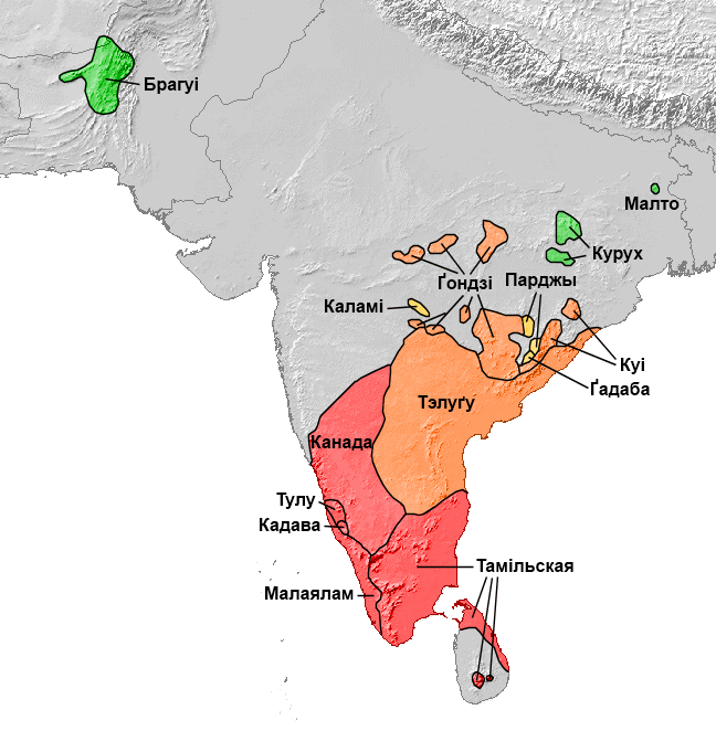 Dravidian languages in South Asia with Belarusian translation